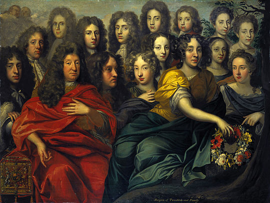 John Hay, 1st Marquess of Tweeddale (1625-1697), posing with his wife Jane and their children and their children's spouses.